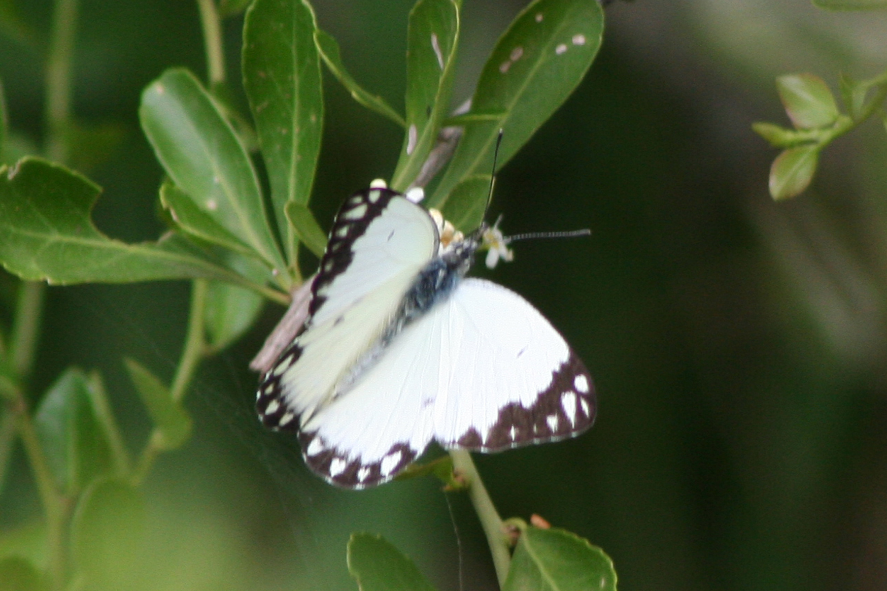 Belenois creona (Cramer, [1776]), African Common White